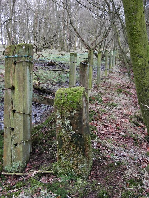 Scots Dyke boundary stone Bit of 'deviation' in the Scots Dyke here. 90% dog leg marked by 2 stones